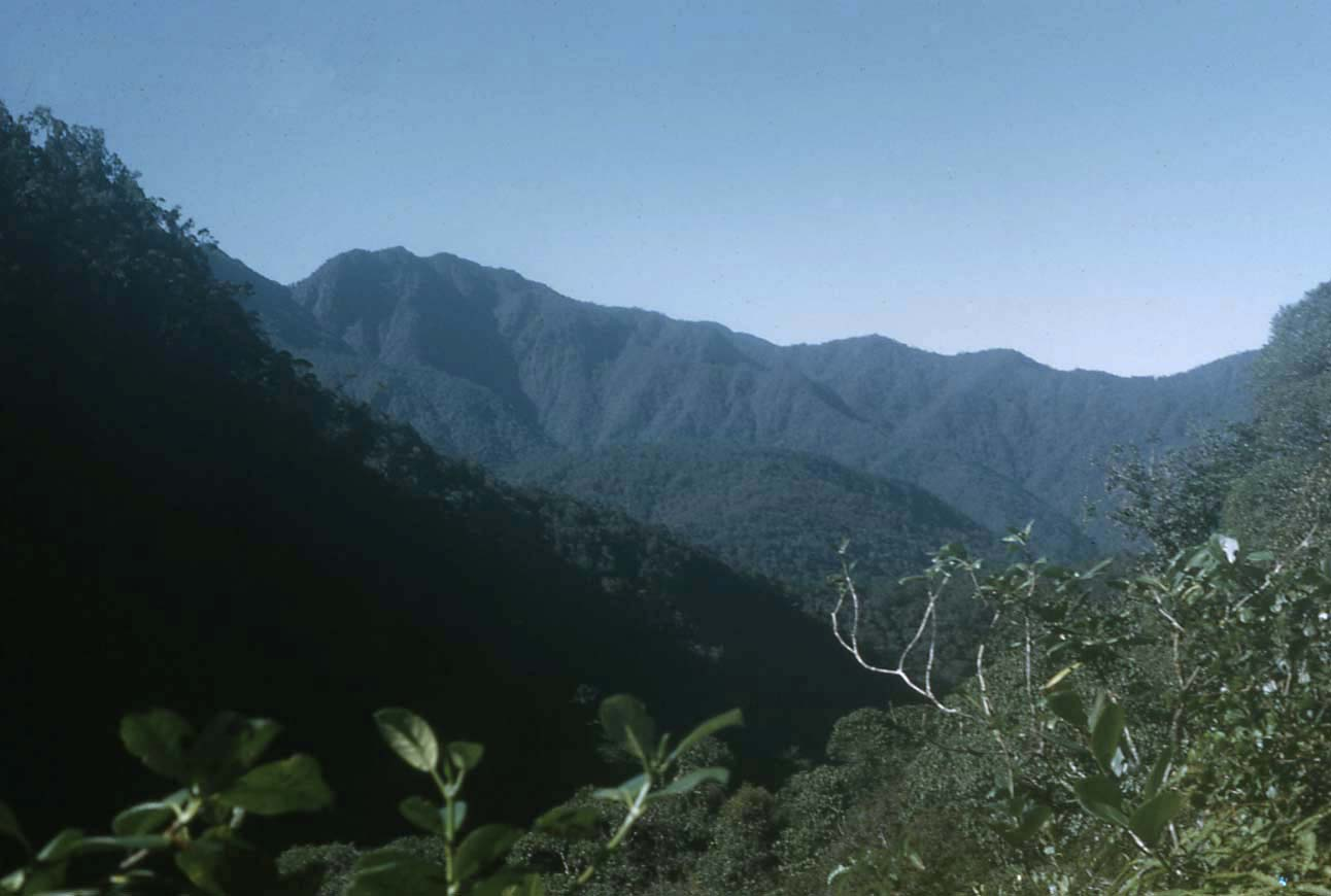 Mountains covered with dense forest in Ekuti Range, Papua New Guinea.